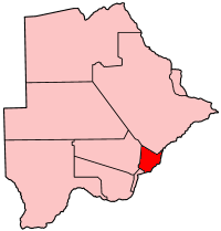 Map of Botswana showing Kgatleng district.